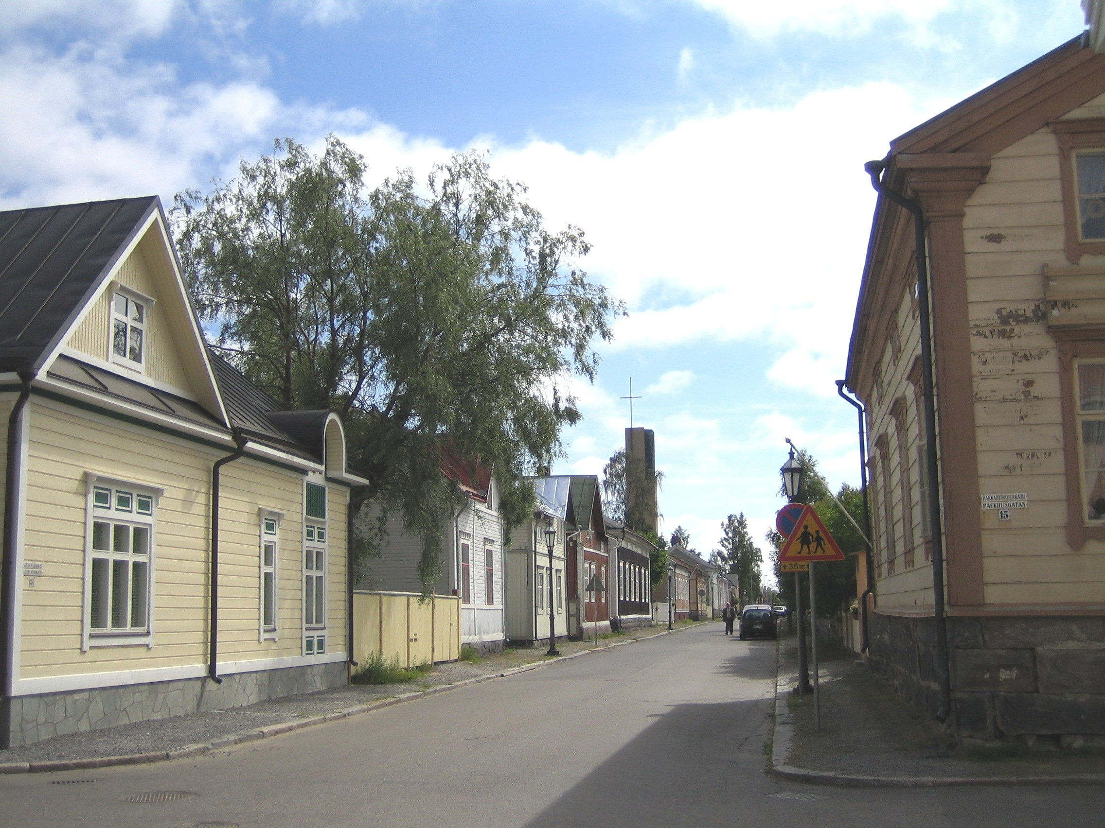 Old town, Kokkola, Finland.